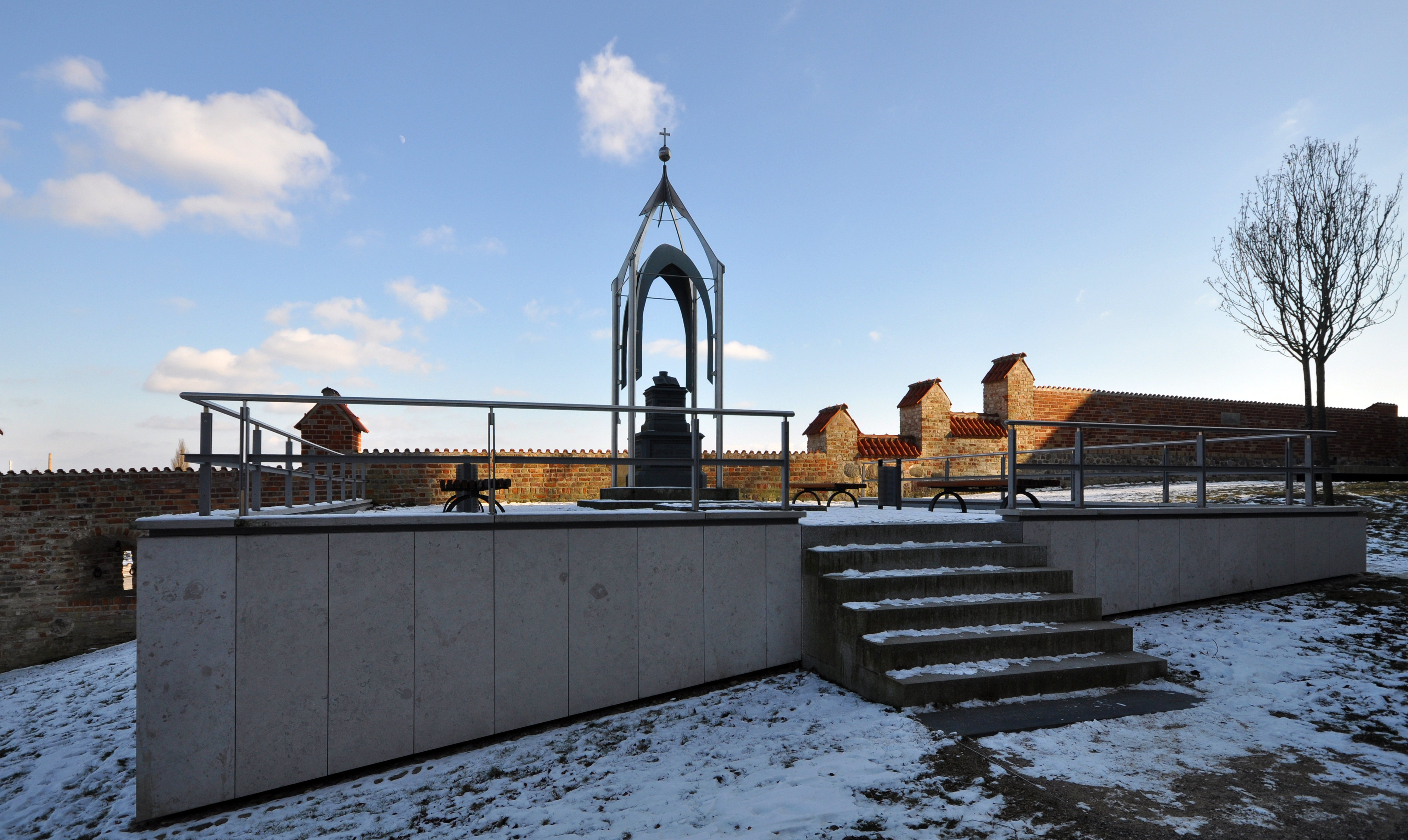 memorial to Joachim Slüter in Rostock, Germany